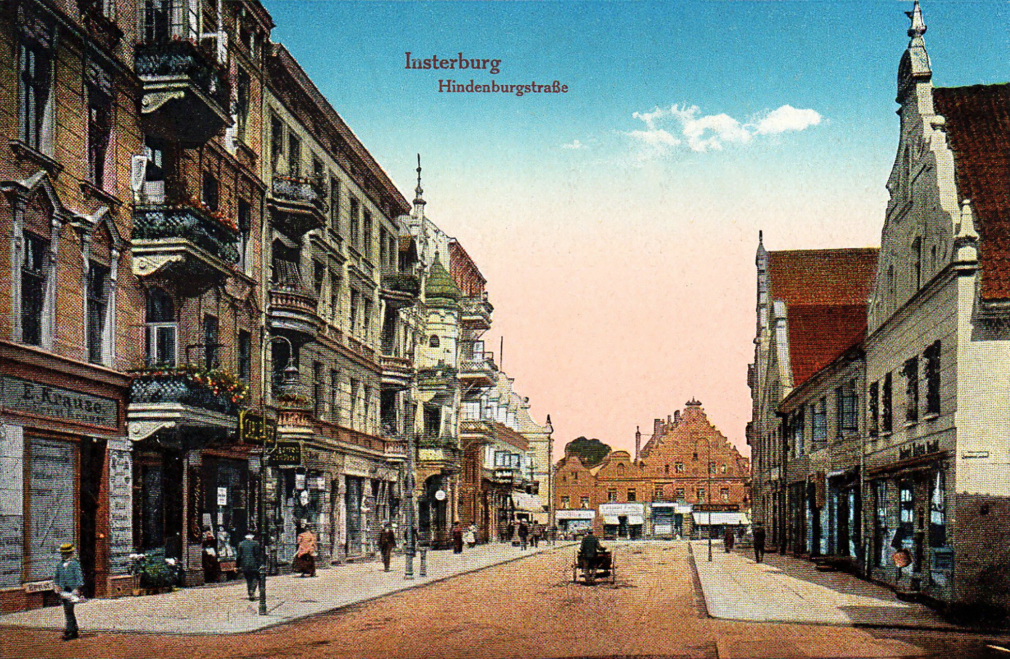 City of Chernyakhovsk about 1890 (before 1945 Insterburg)